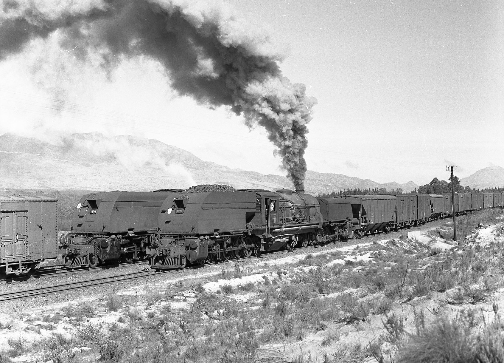 Class GEA 4010 (4-8-2+2-8-4)Location: Steenbras, Western CapeThe "off-season" for fruit on Sir Lowry's Pass, but not a slow day for steam. On this day GEA 4029 headed a morning train eastbound out of Cape Town for Sir Lowry's Pass. Sister GEA 4010 brought a westbound train from the east and the two met at Steenbras, exchanged trains and returned to their respective depots.